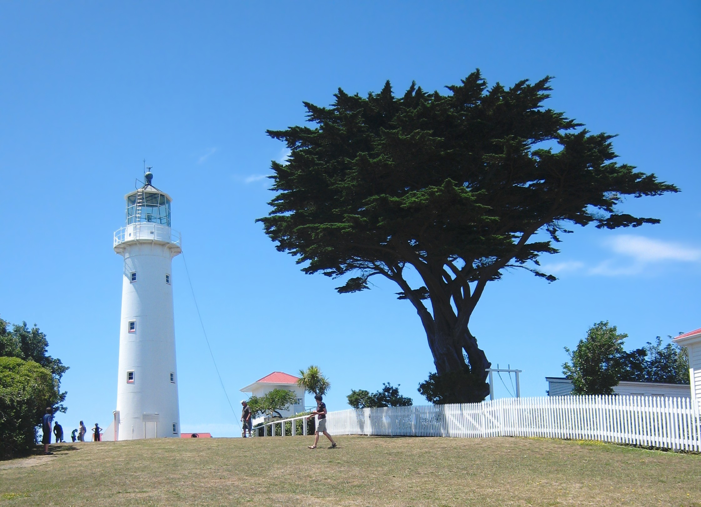 Tiritiri Matangi lighthouse and the nearby macrocarpa tree. Tiritiri Matangi lighthouse is located near the southeastern end of Tiritiri Matangi Island, a wildlife sanctuary in New Zealand's Hauraki Gulf. It was once the most powerful lighthouse in the southern hemisphere. Macrocarpa trees (Cupressus macrocarpa) have been widely planted around New Zealand, especially on farms. The island was farmed for many years before becoming a nature reserve.